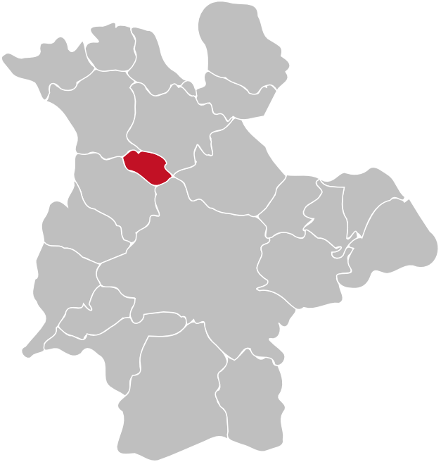 Location of the district Birlenbach within Siegen, Germany. Red/Grey colors match the color scheme of Germany maps and information boxes in German Wikipedia. District is highlighted in red.